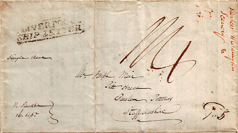 Manually pen franked stampless "Liverpool Ship Letter" posted in Philadelphia, PA, on September 15, 1832, carried via ship to Liverpool, England. Source: The Cooper Collection of Early American Postal History